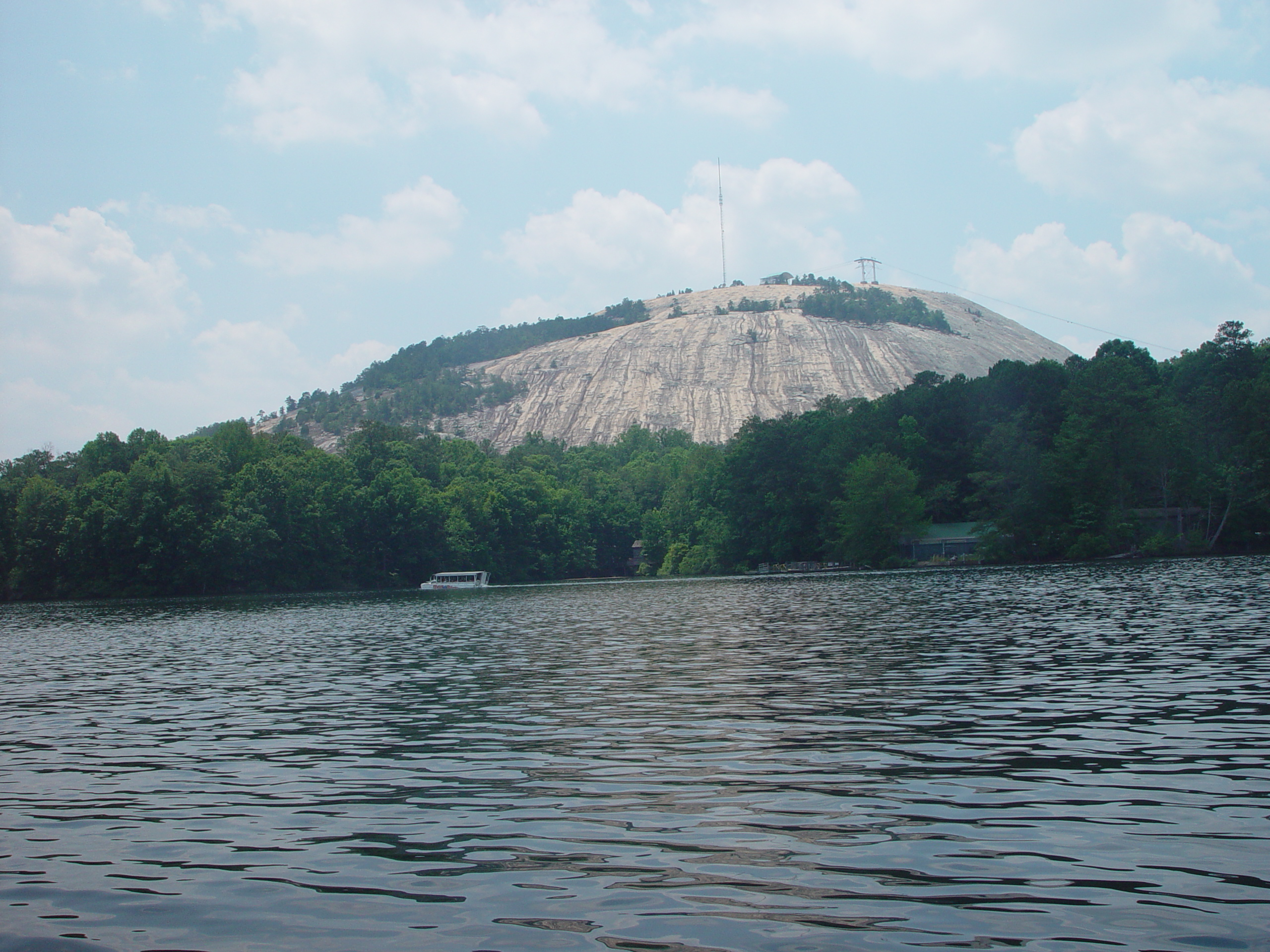 View of Stone Mountain from the lake, Georgia, USA